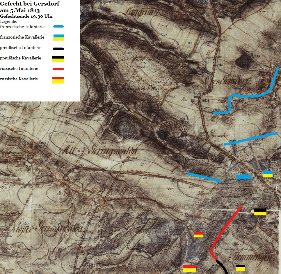 Battlemap from the battle of Gersdorf 5. May 1813.End of battle.